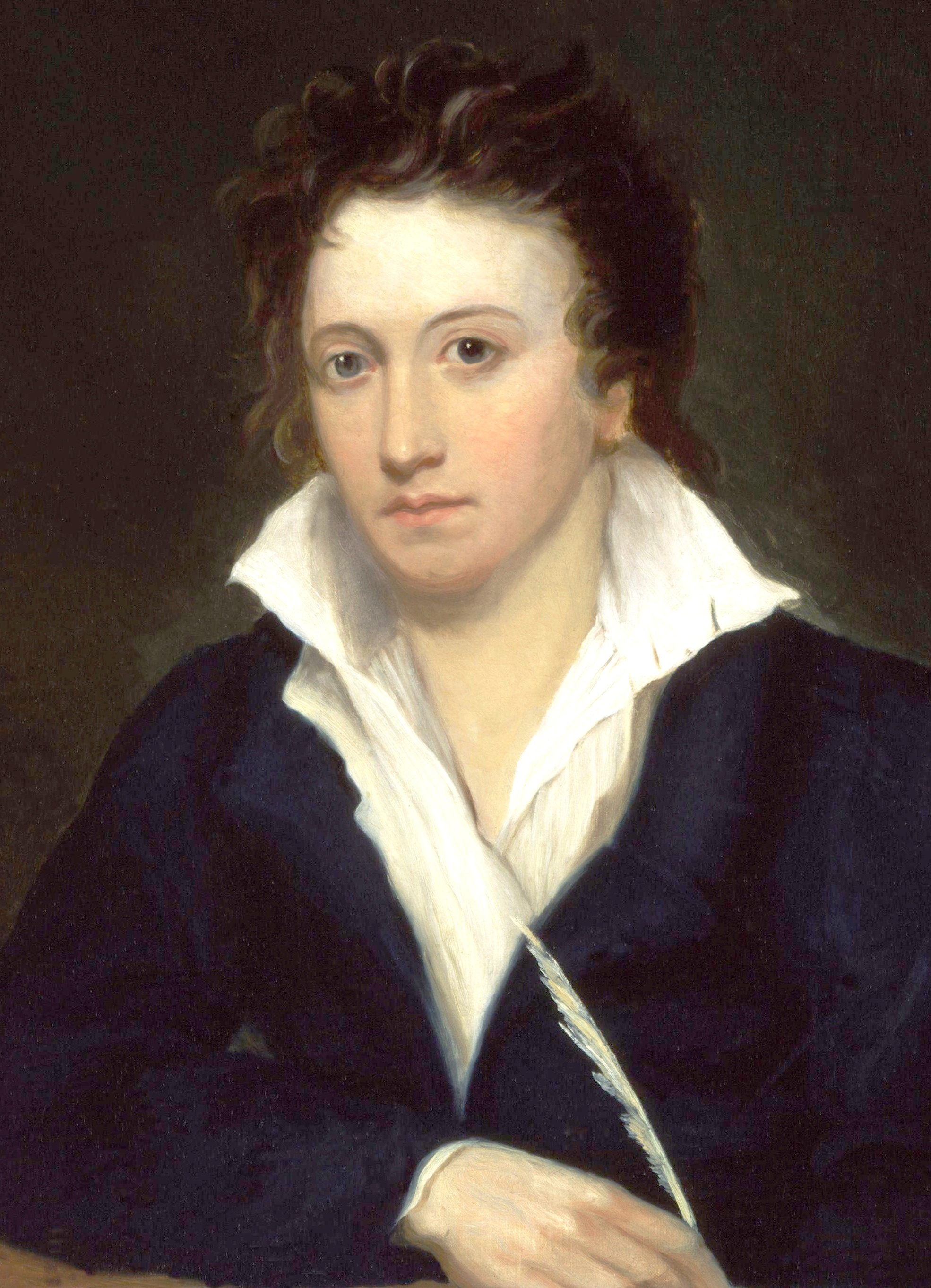 Percy Bysshe Shelley, by Alfred Clint (died 1883). All images in this batch have been confirmed as author died before 1939 according to the official death date listed by the NPG.